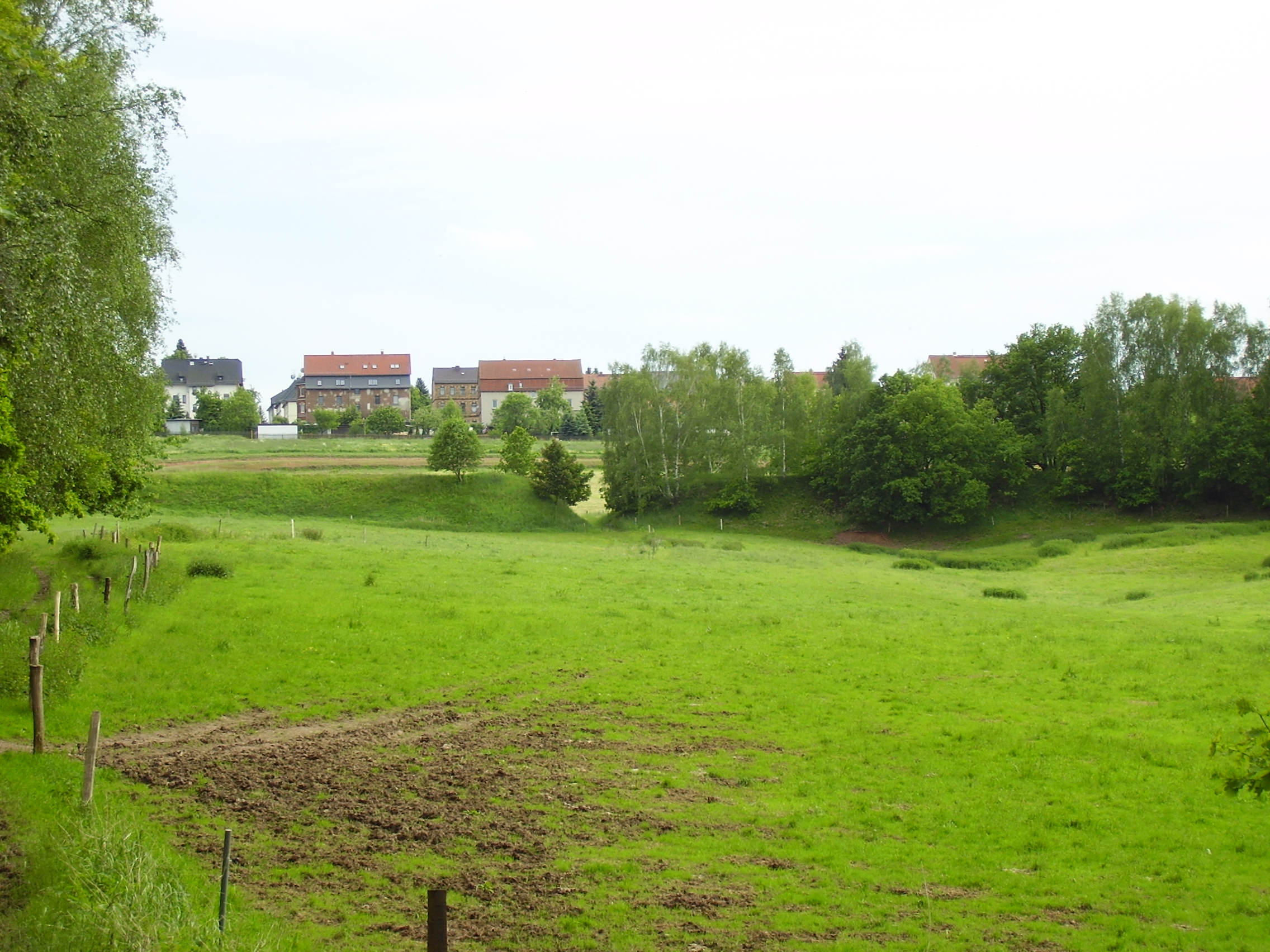 Causeway of the former Oberhohndorf-Reinsdorfer coal mine railway. Reinsdorf, Saxony, Germany.